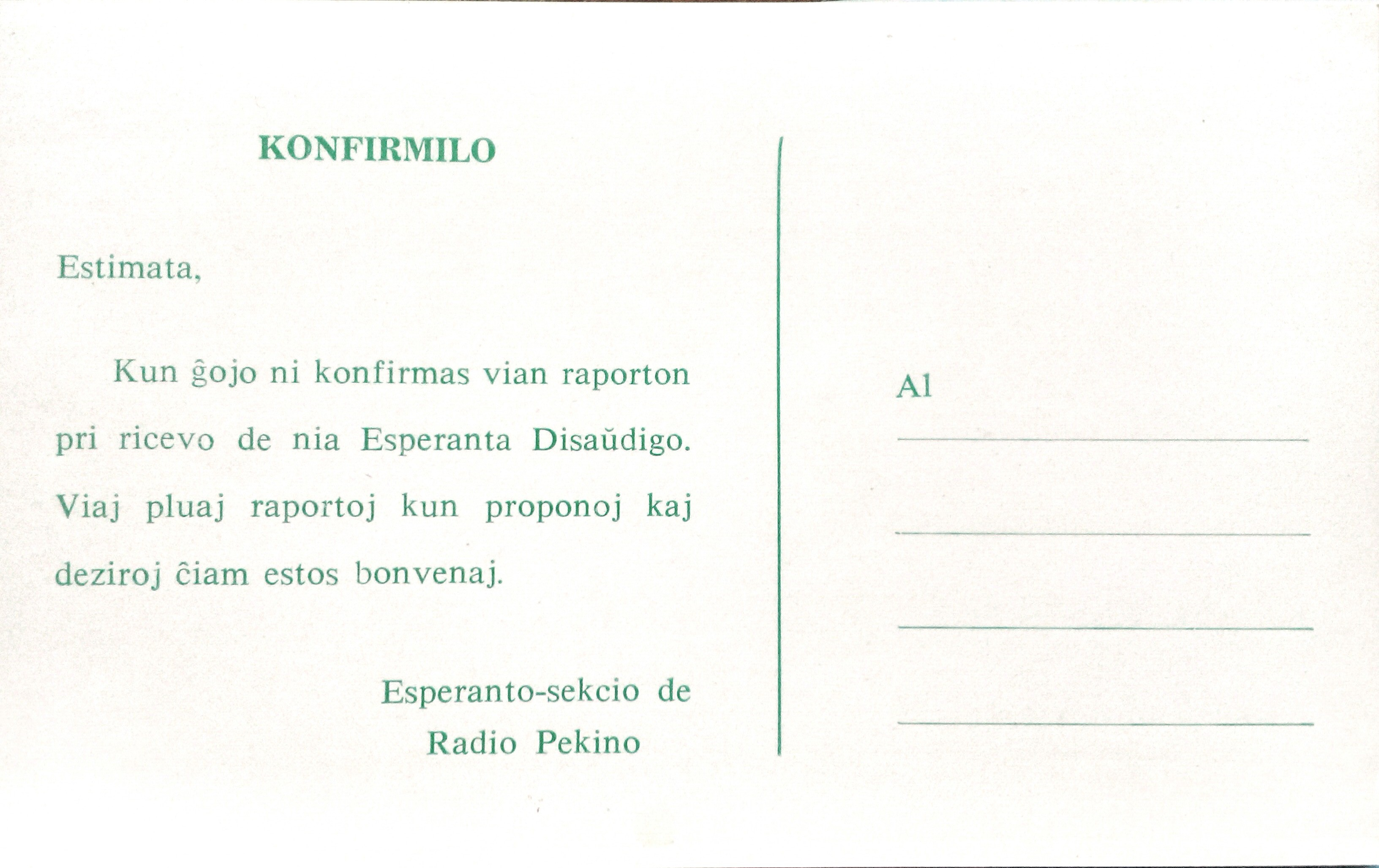 Listening Confirmation Card of Radio Beijing